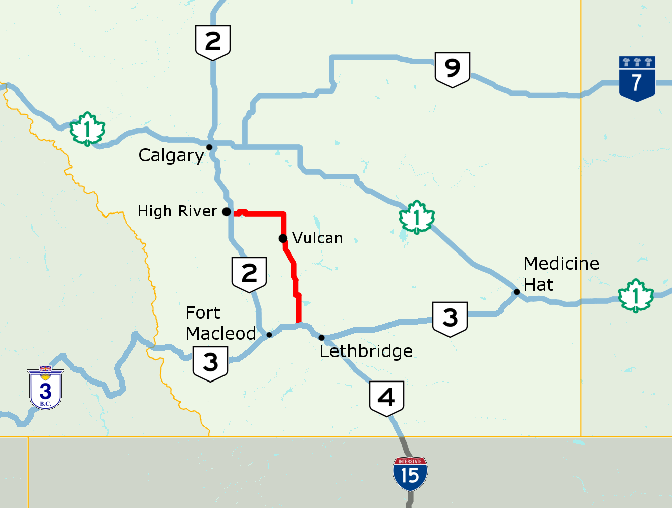 OpenStreetMap of Highway 23 in southern Alberta.